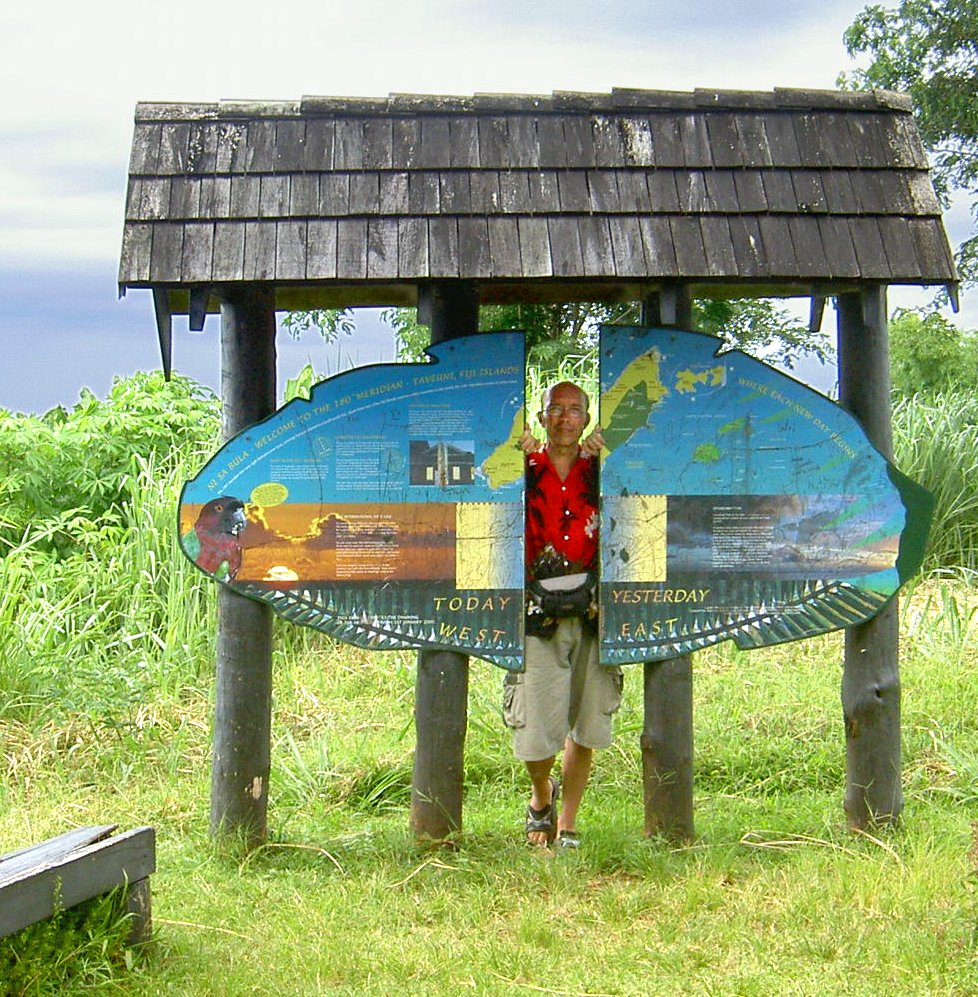 Sign "Between Yesterday And Today" at 180° Meridian, Taveuni, Fiji